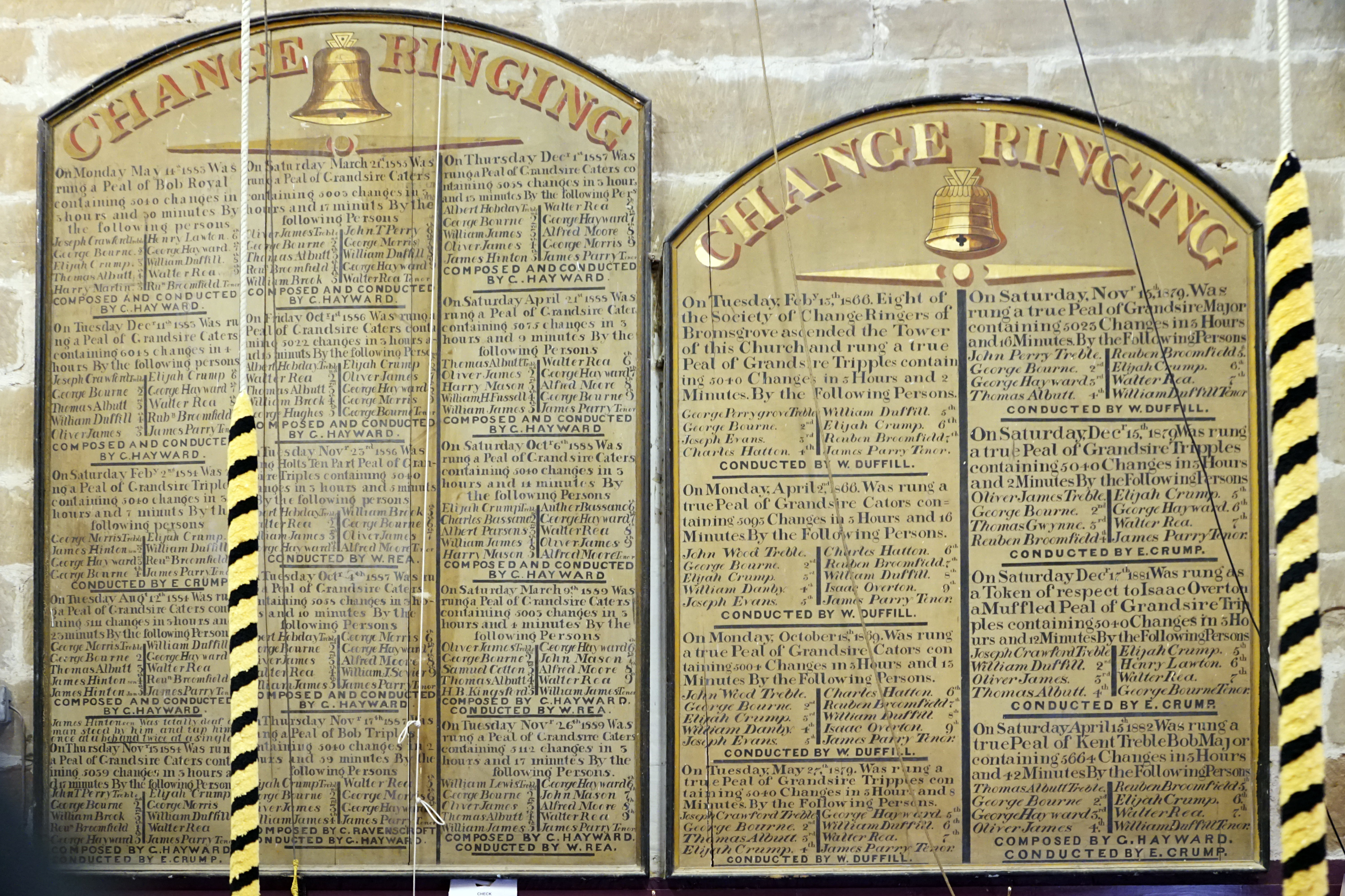 Peal boards in the ringing chamber at the church of St John the Baptist, Bromsgrove, Worcestershire, England.